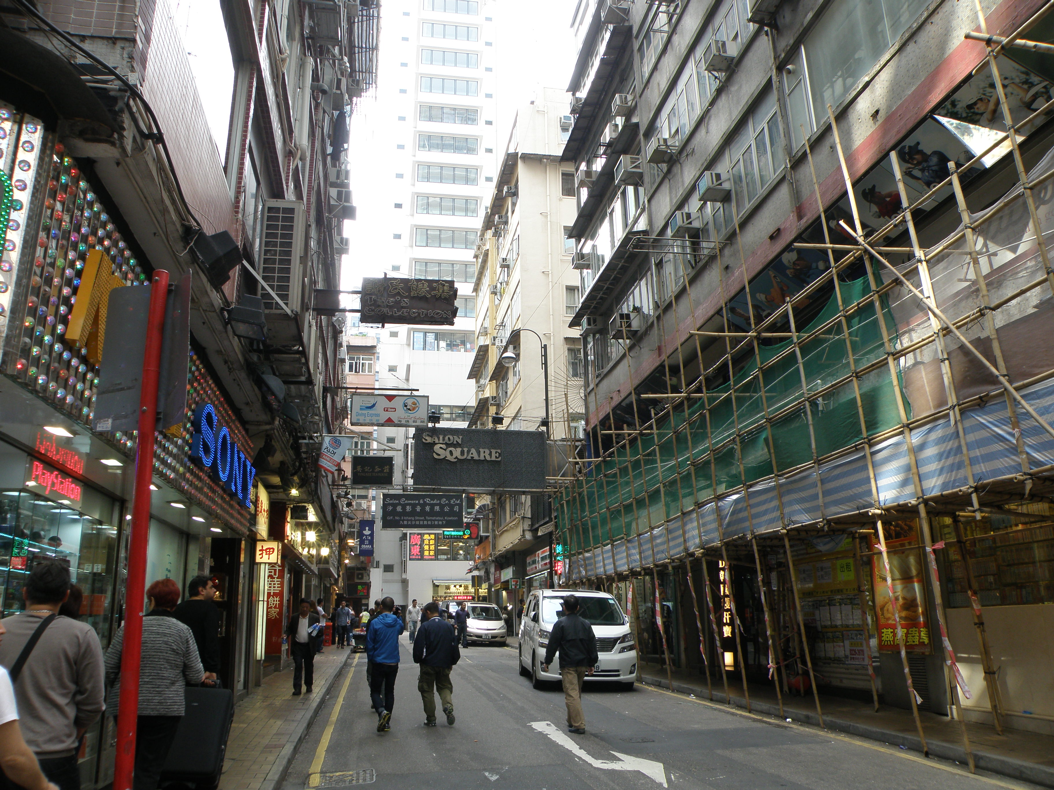 Ichang Street in Tsim Sha Tsui, Hong Kong.